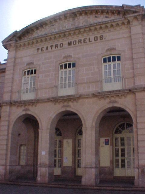 Teatro Morelos, en Agusacalientes (Morelos Theather, in Aguscalientes City)